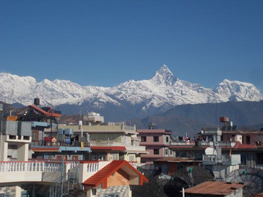 Himalayan Range seen from the middle of beautiful Pokhara valley